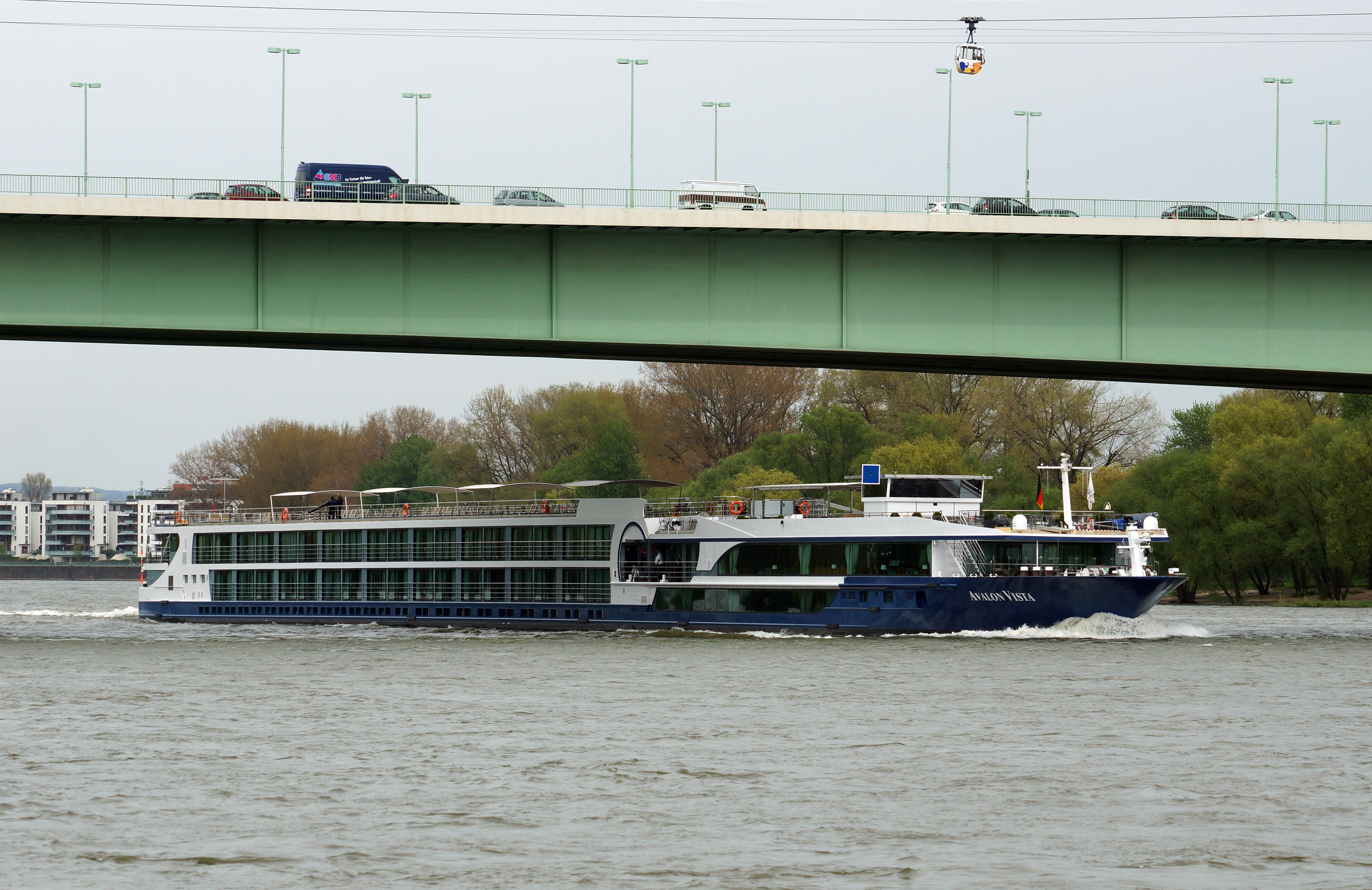 River cruise ship Avalon Vista in Cologne.